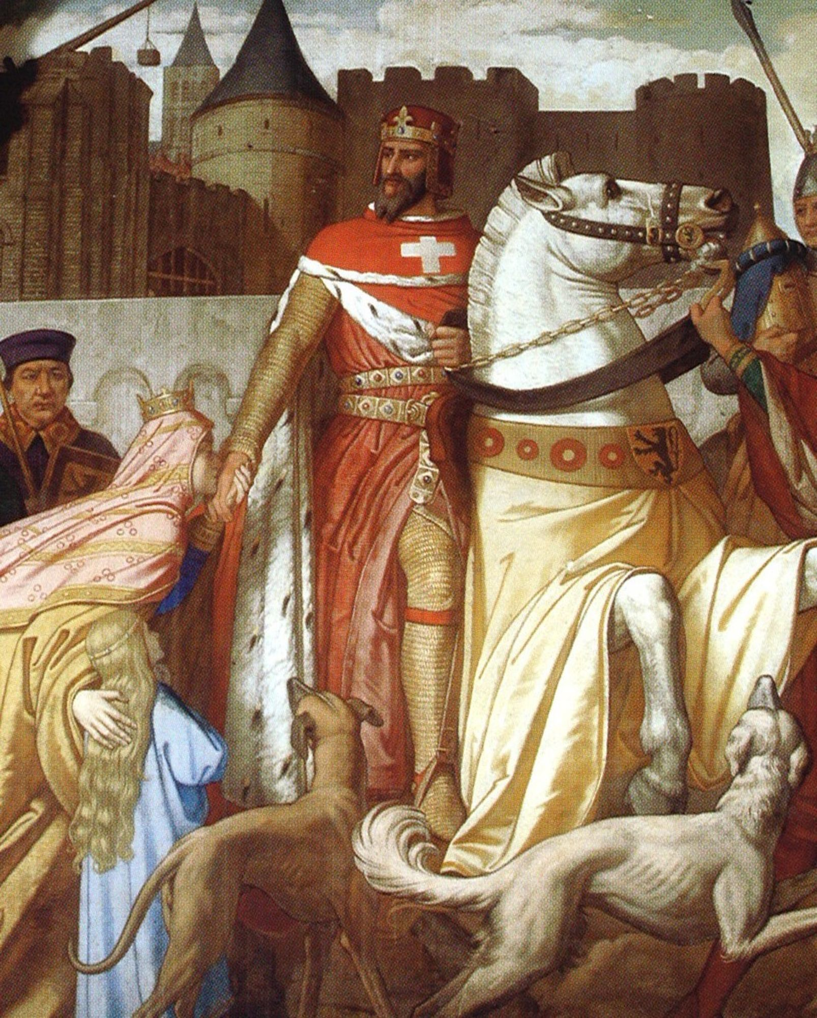 Baldwin I of Constantinople, his wife Marie of Champagne and one of his daughters